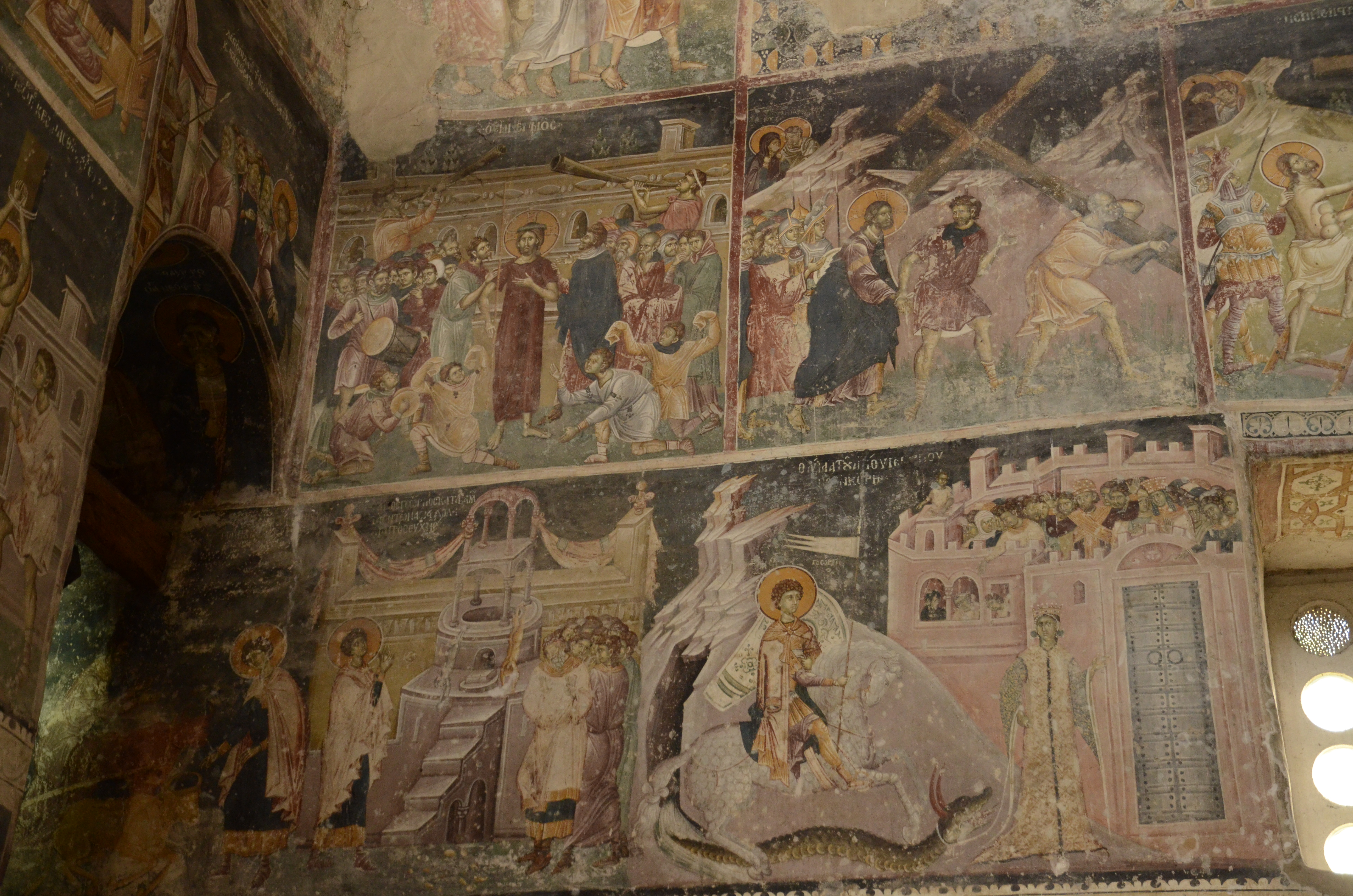 Church of Saint George in Staro Nagorichino, northern wall, Mocking, Road to Golgotha, George destroying idols, George slaying the dragon